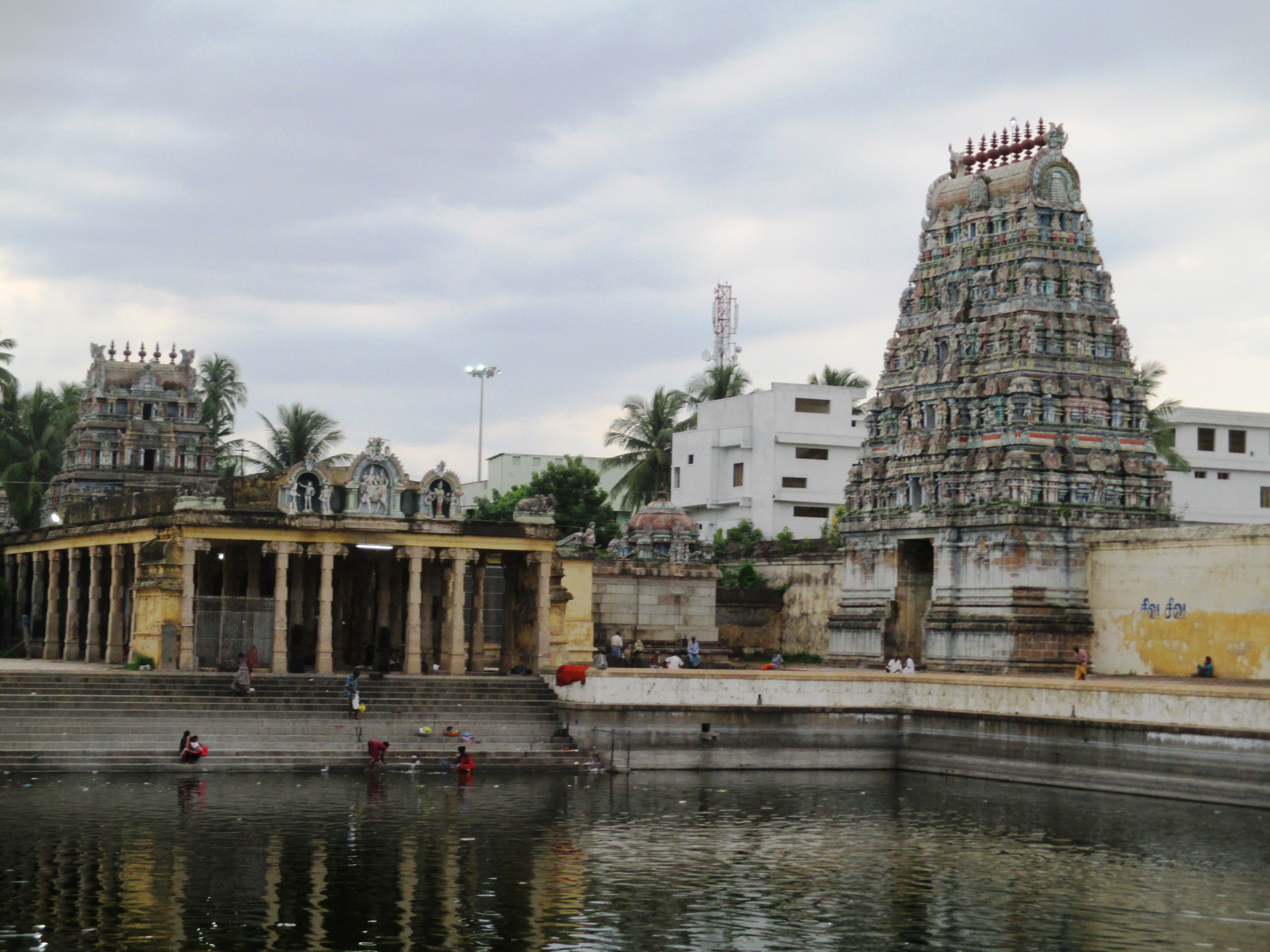 Sirkazhi Sattanathar Temple